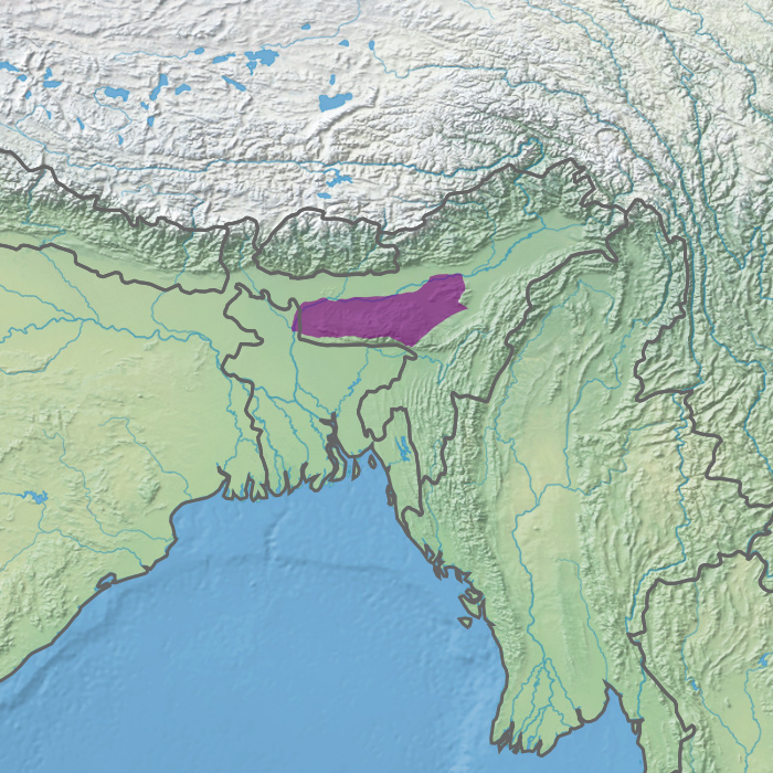 Ecoregion IM0126 - Meghalaya subtropical forests (in purple)